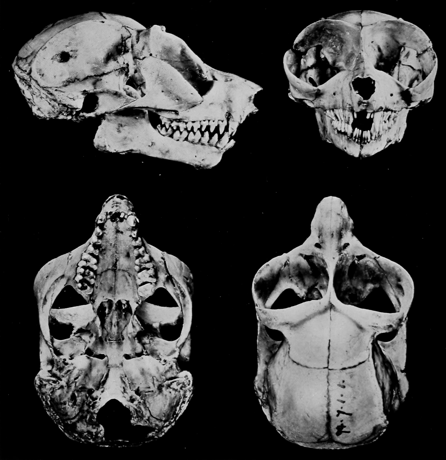 Skull of Loris lydekkerianus. Specimen 94.7.1.1 British Museum.